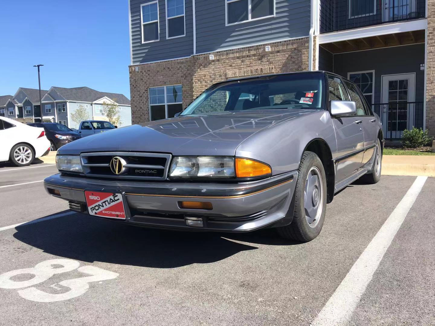 A grey 1990 Bonneville SSE.